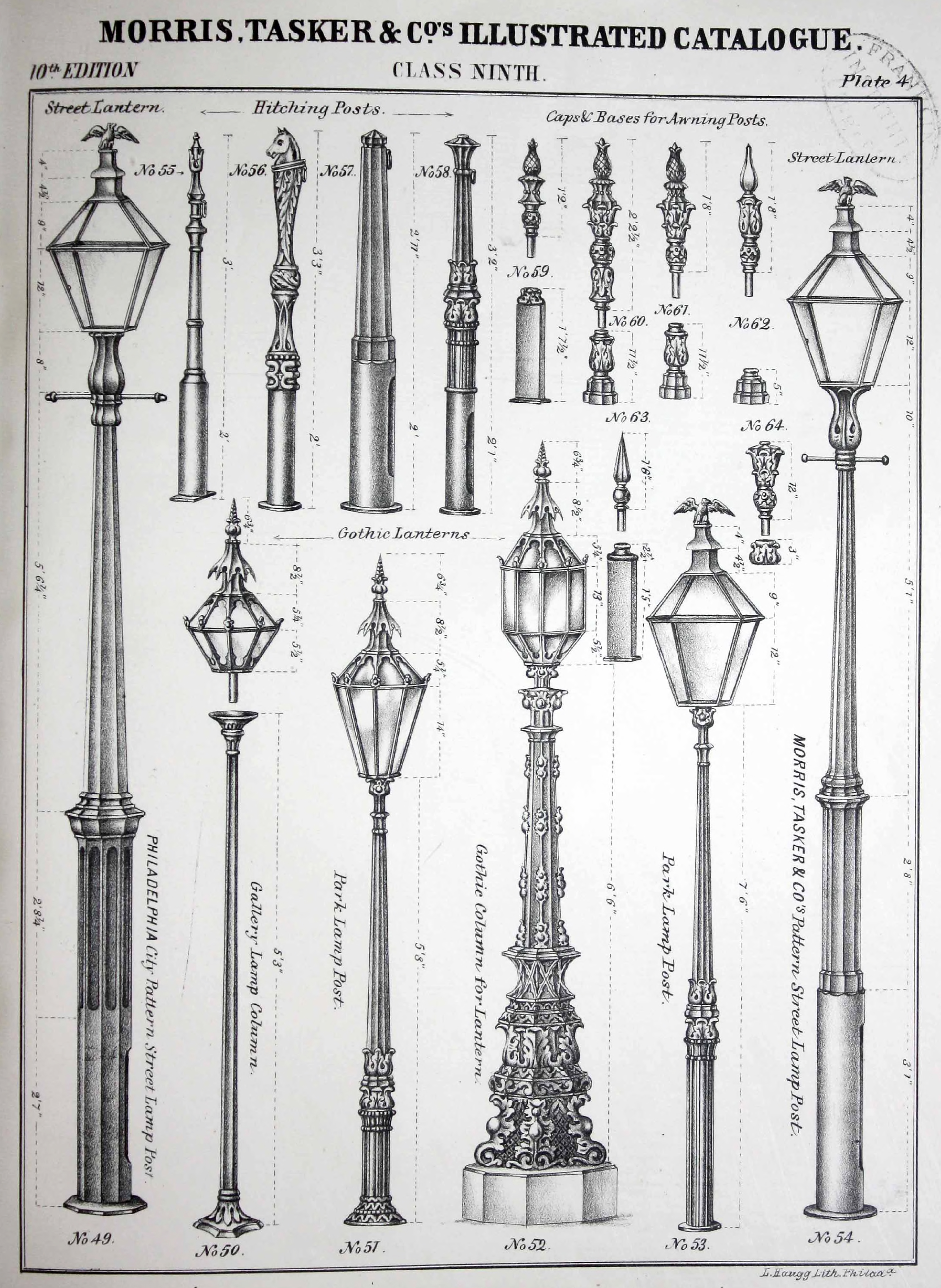 Street Lighting and Posts, Morris, Tasker & Co. Illustrated Catalogue, Pascal Iron Works Philadelphia, Tasker Iron Works New Castle, Del., Tenth Edition, June 1st, 1871